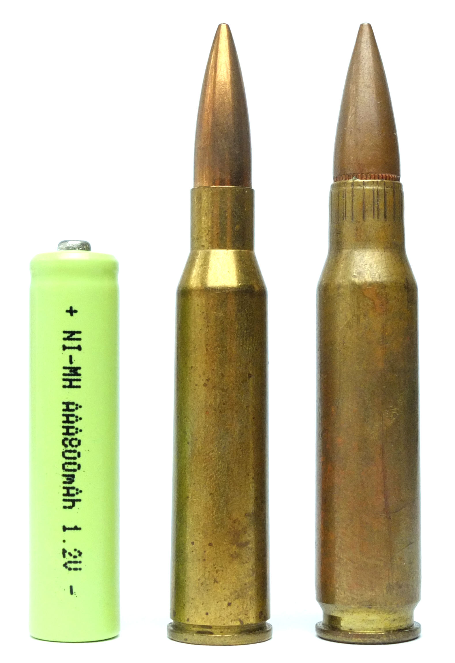 Cartridge Comparison 6.5x50mm Arisaka and 7.62x51mm NATO